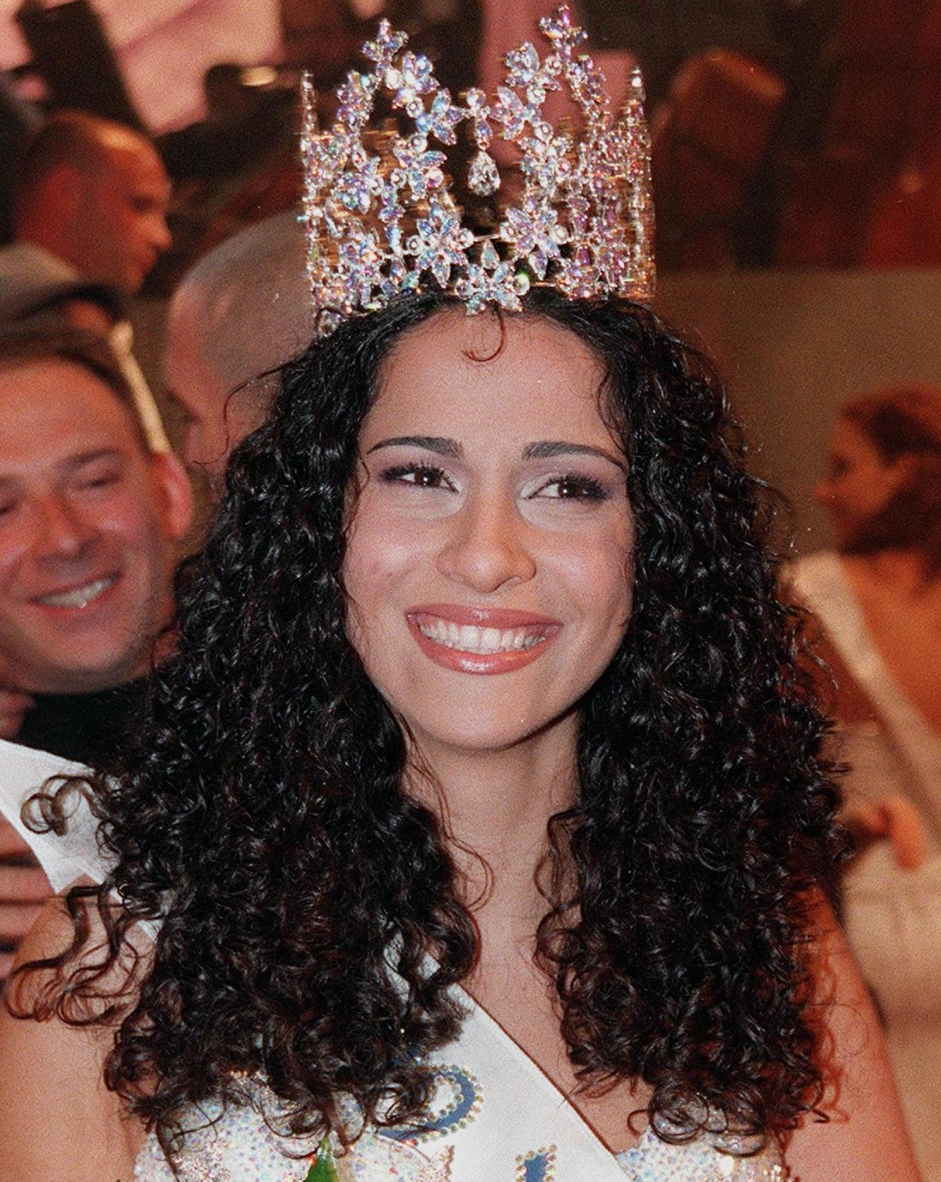 Miss israel 1999 Rana Raslan, an arab from Haifa, crying form joy after being crowned in the beauty competiton, held at the Tel Aviv "Cinerama".